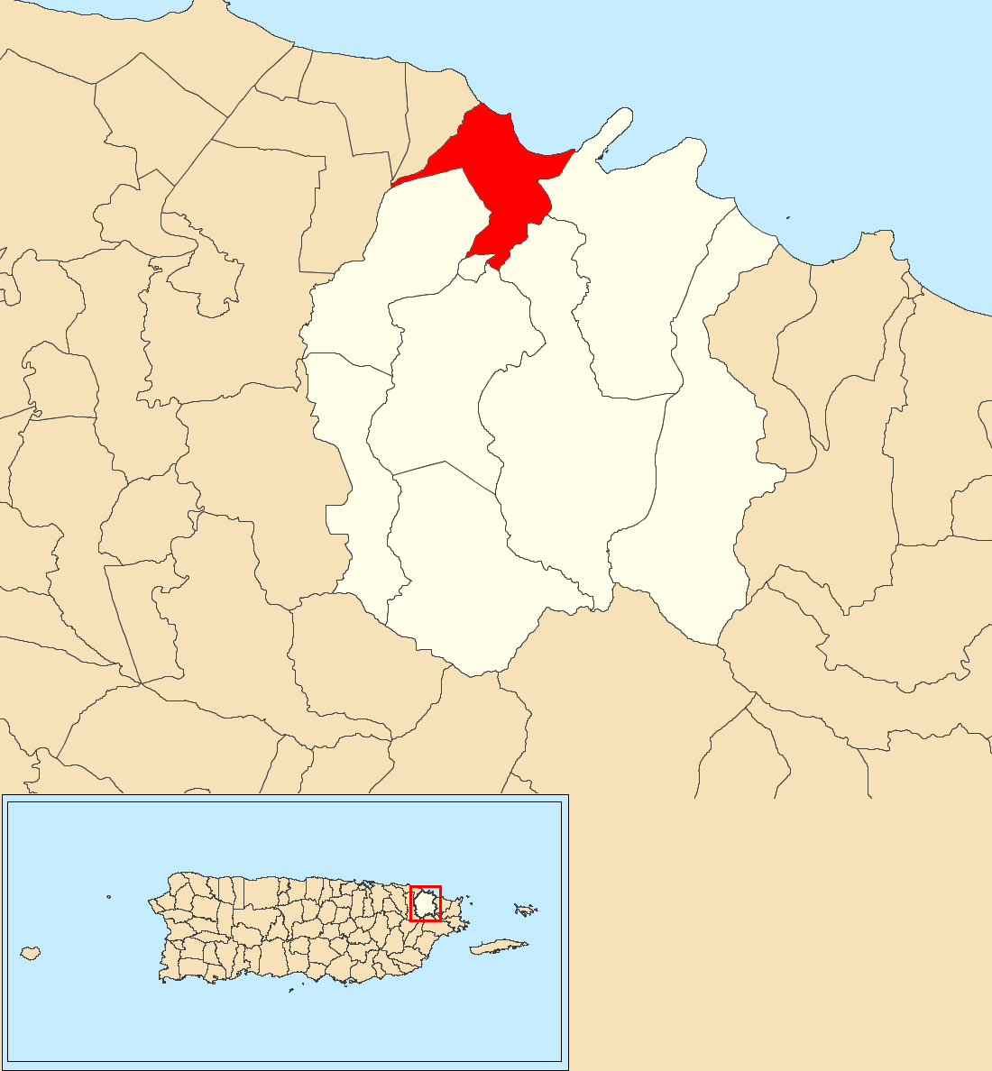 Herreras, Río Grande, Puerto Rico locator map